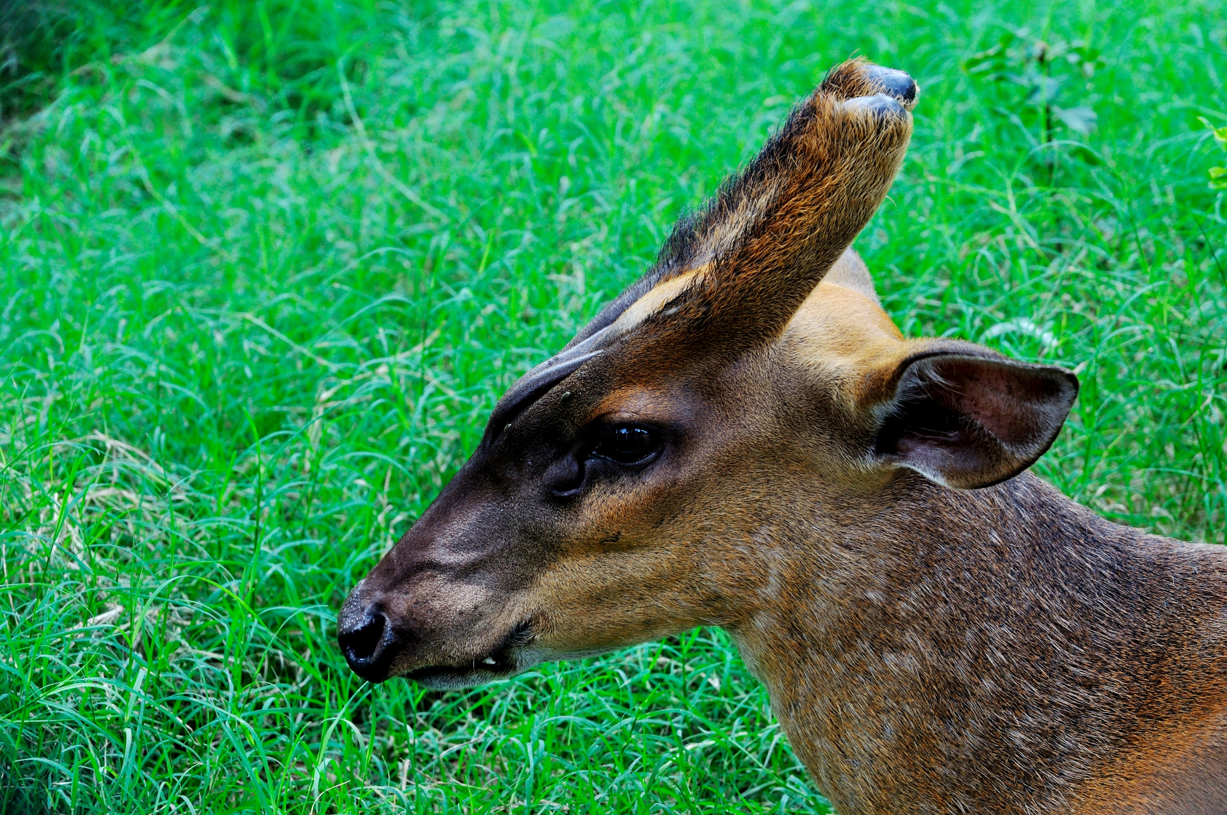 Muntjac, also known as Barking Deer, are small deer of the genus Muntiacus. Muntjac are the oldest known deer, appearing 15-35 million years ago, with remains found in Miocene deposits in France, Germany and Poland.